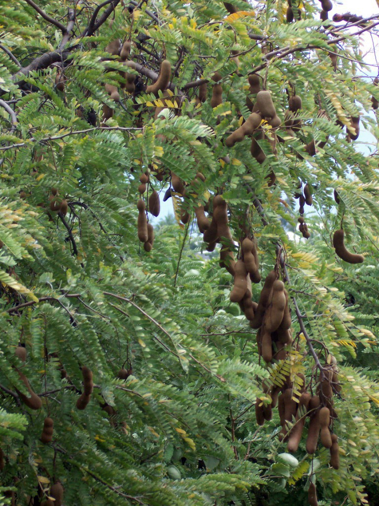 Tamarind tree (Tamarindus indica) with pods